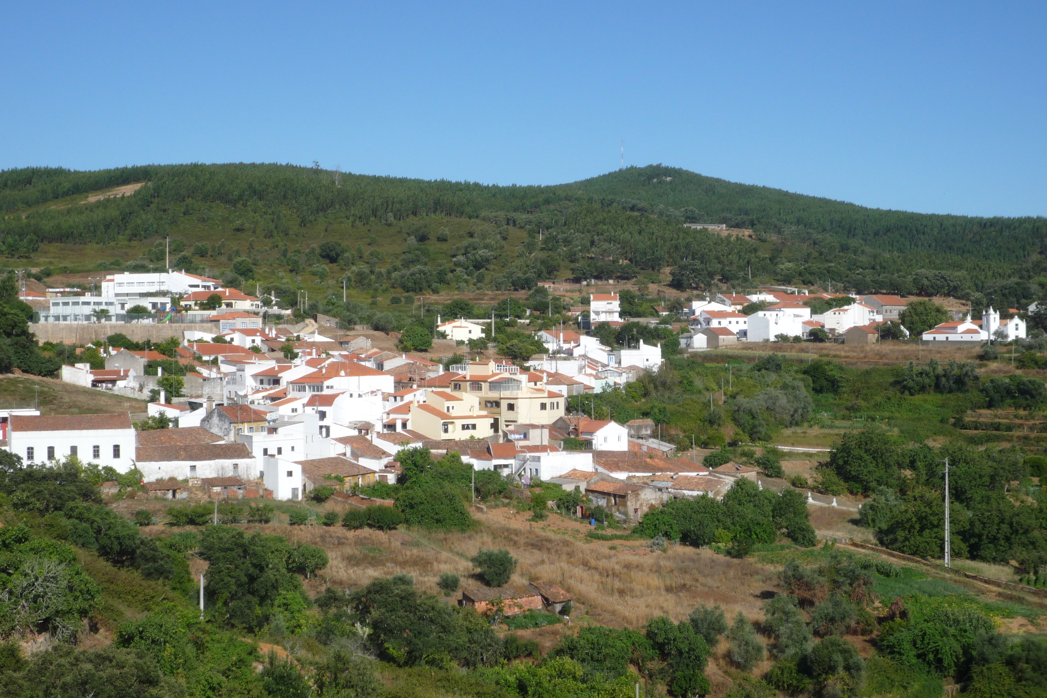 A general view of Marmelete, Monchique, Algarve seen from Rua d'Aljezur looking southeast.